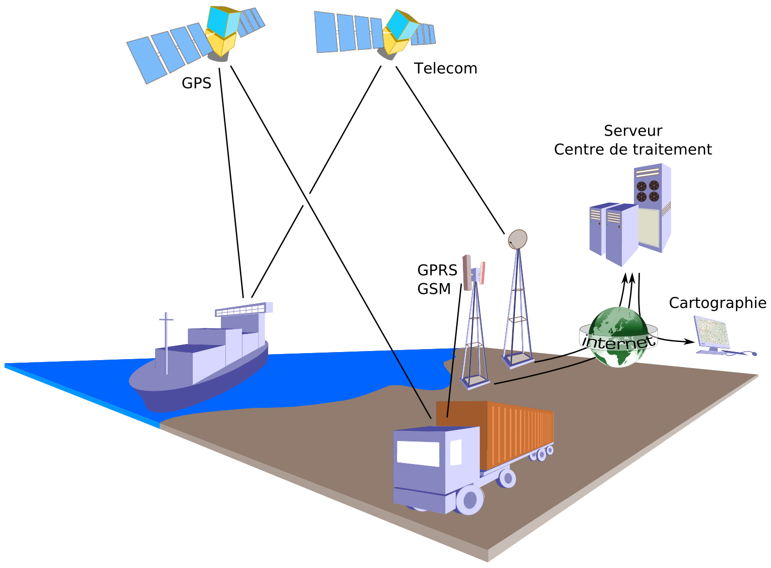 Principle of geolocation with GPS. Data transmitted on real-time by telecom satellite or GSM/GPRS